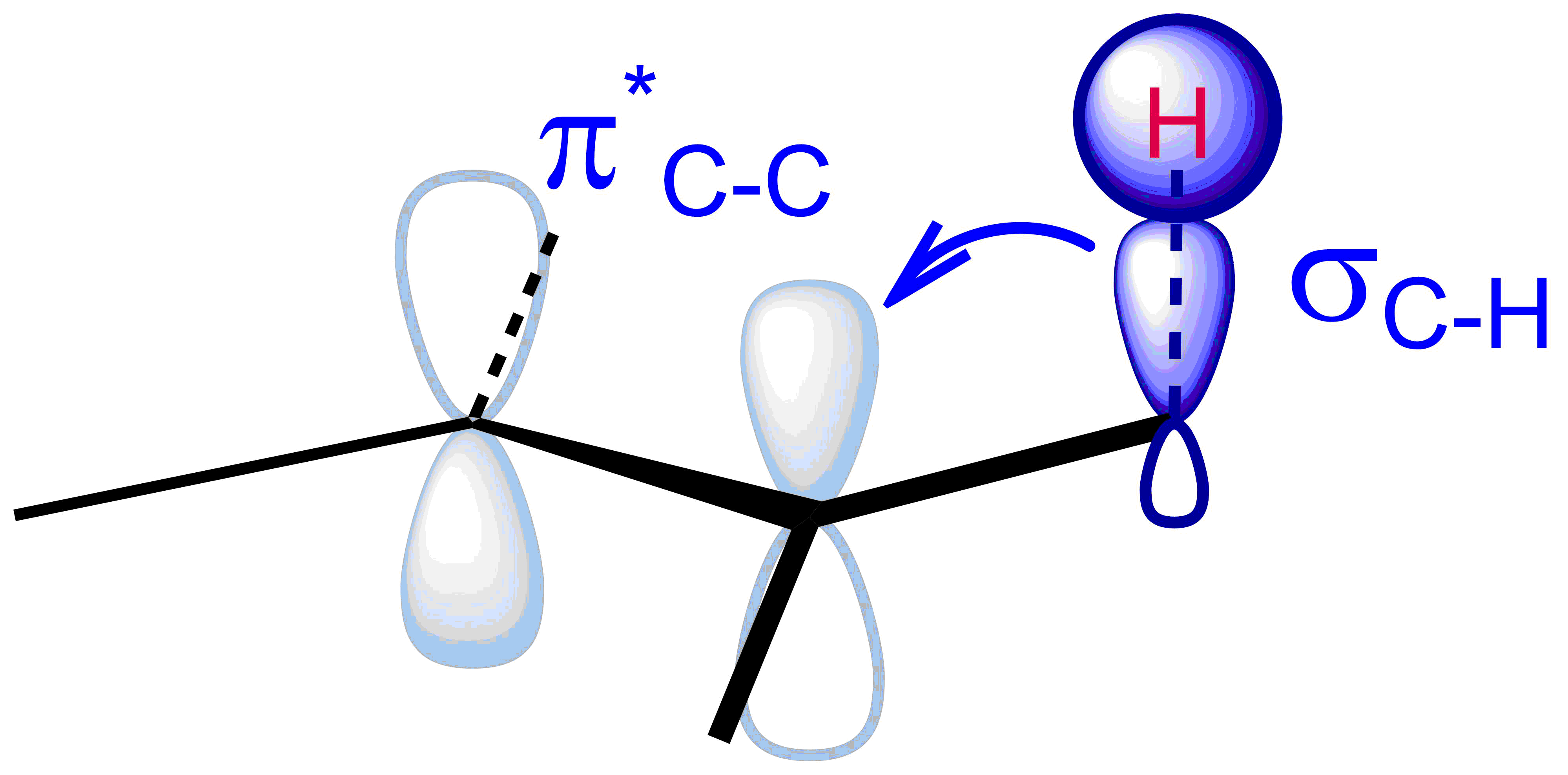 Orbital picture of alkene hyperconjugation